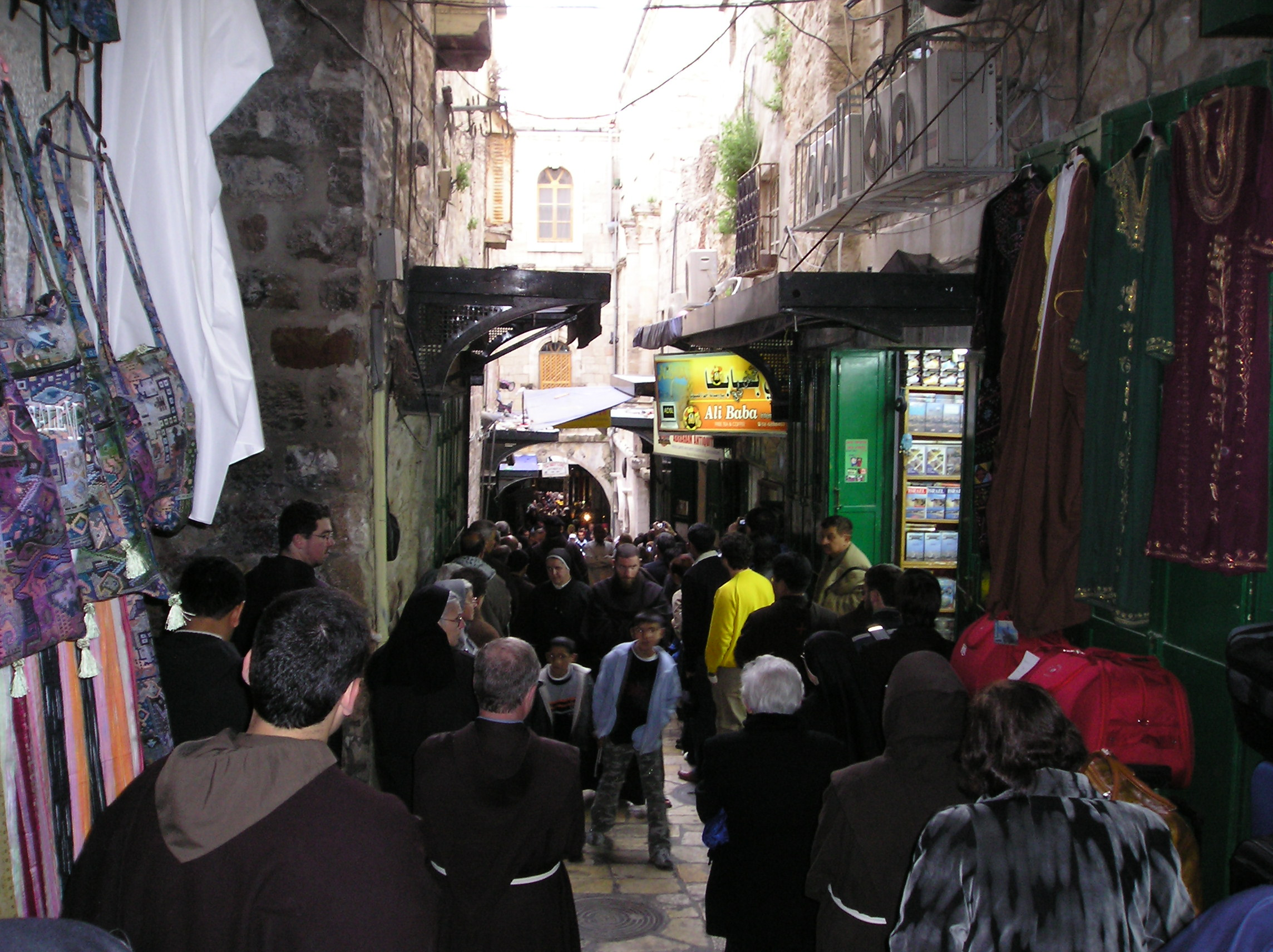 The Franciscan Procession of the Stations of the Cross in Jerusalem - Via Dolorosa. Photo A. Sobkowski OFM. 2006.